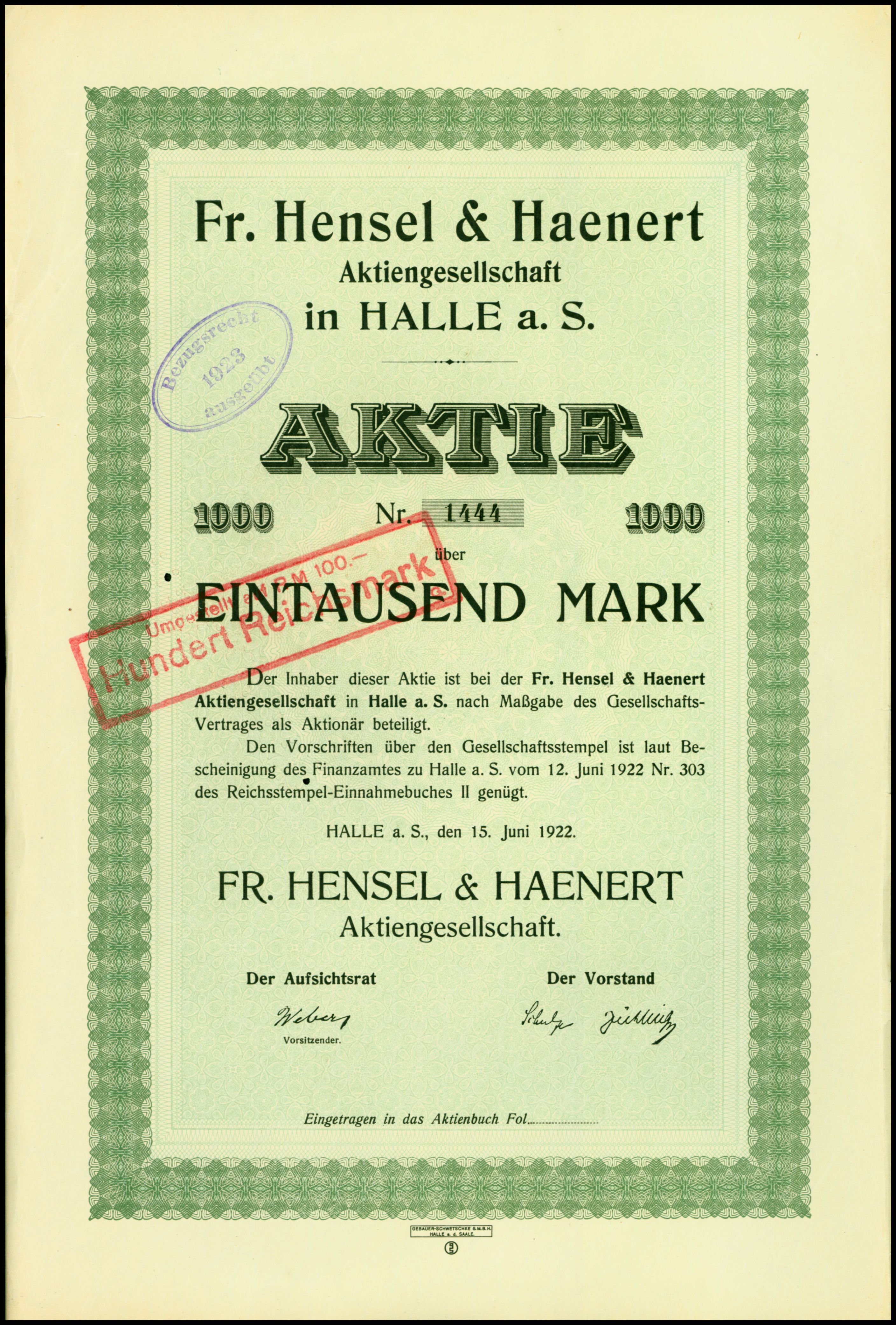 Share of the Fr. Hensel & Haenert AG, issued 15. June 1922